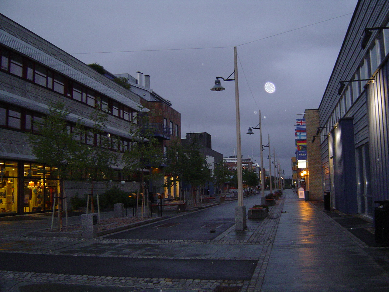 Center of the town Alta, Norway